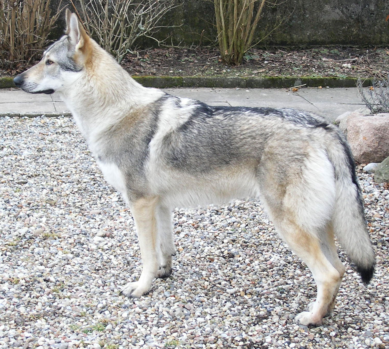 Czechoslovakian wolfdog observing